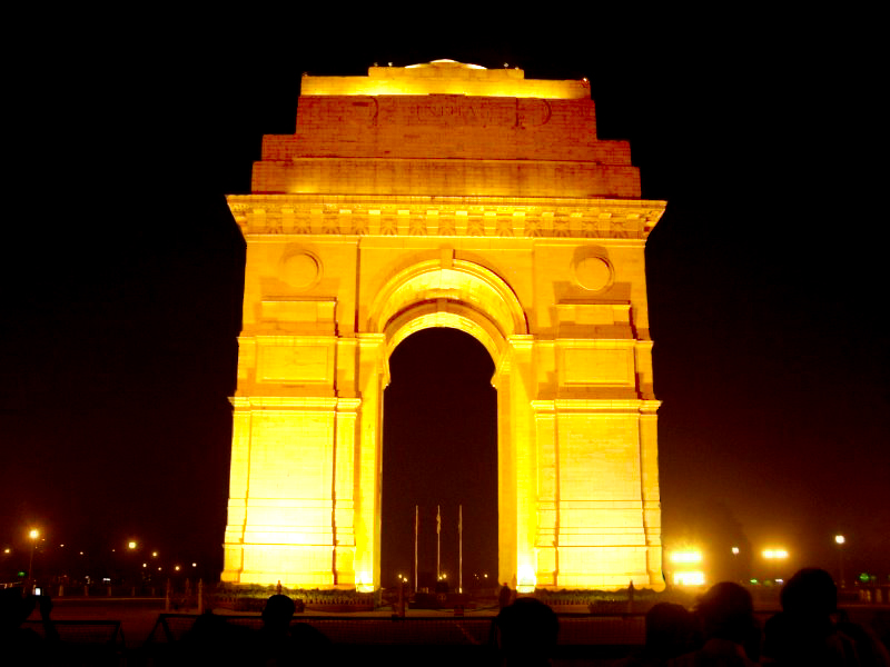 India Gate in New Delhi.